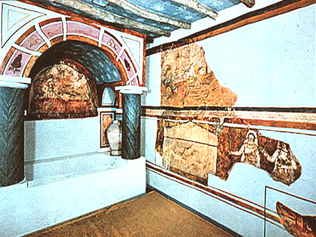 Overall view of the Dura Europos baptistry as reconstructed in Yale university.